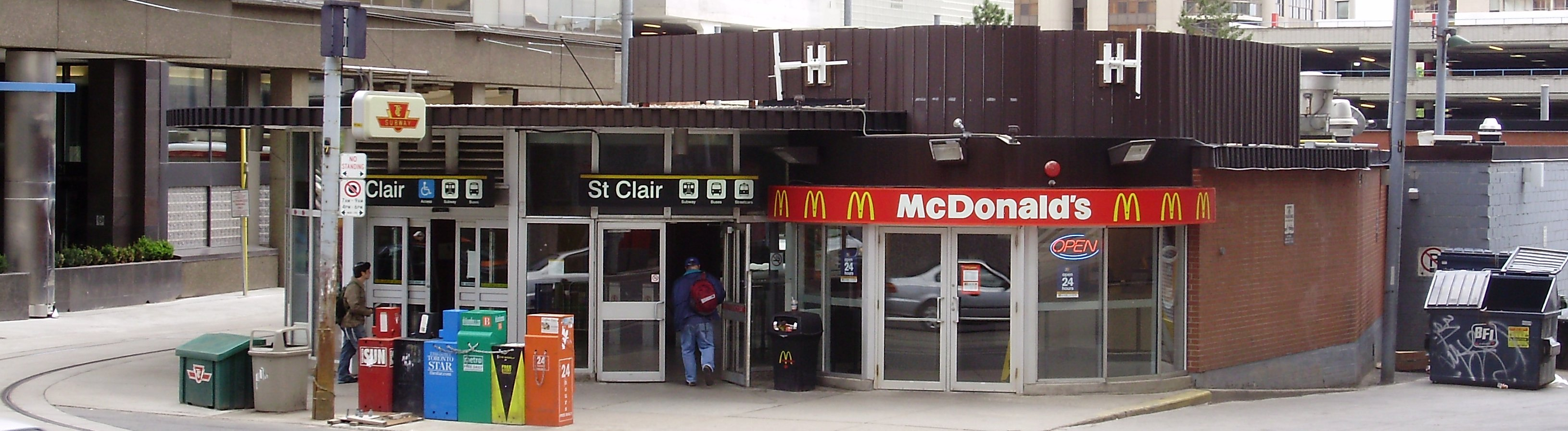 The Toronto Transit Commission's St. Clair station in Toronto, Ontario, Canada.